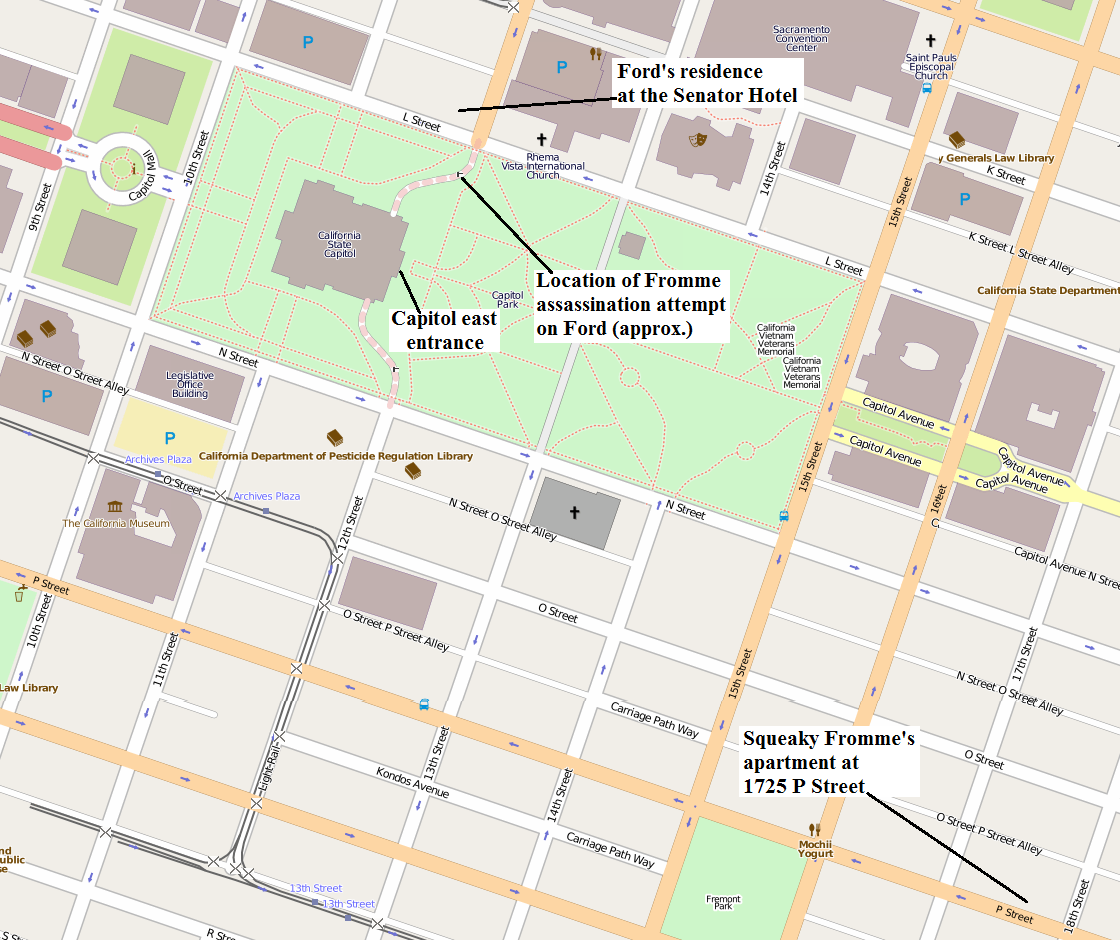 Computer image generated using OpenStreetMap of California State Capitol Park area in Sacramento, California, edited to show locations of: 1. US President Gerald Ford's residence at Senator Hotel where he left at 10:02 am; 2. Squeaky Fromme's apartment at 1725 P Street; 3. Approximate location of Ford assassination attempt in Sacramento on September 5, 1975 at approximately 10:04 am; and 4. East entrance of the California state capitol building through which Ford entered at 10:06 am after the assignation attempt.